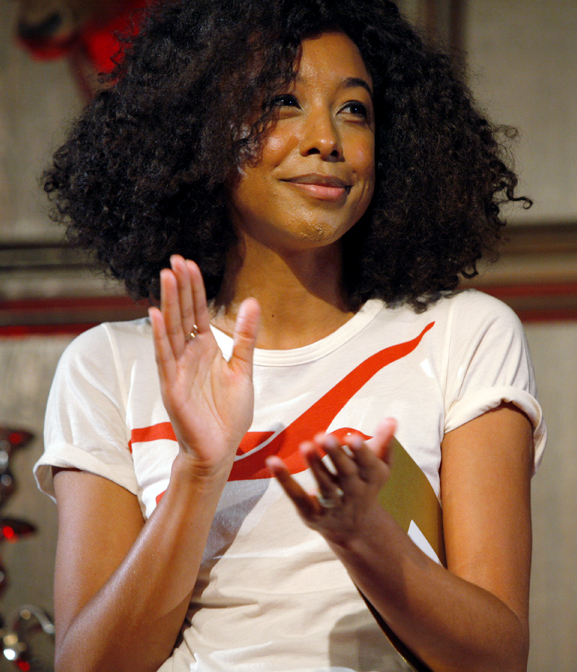 Corinne Bailey Rae_Mojo Awards 2009